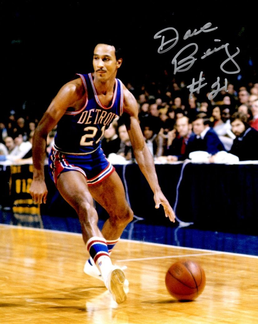 Former NBA player Dave Bing while playing for the Detroit Pistons.